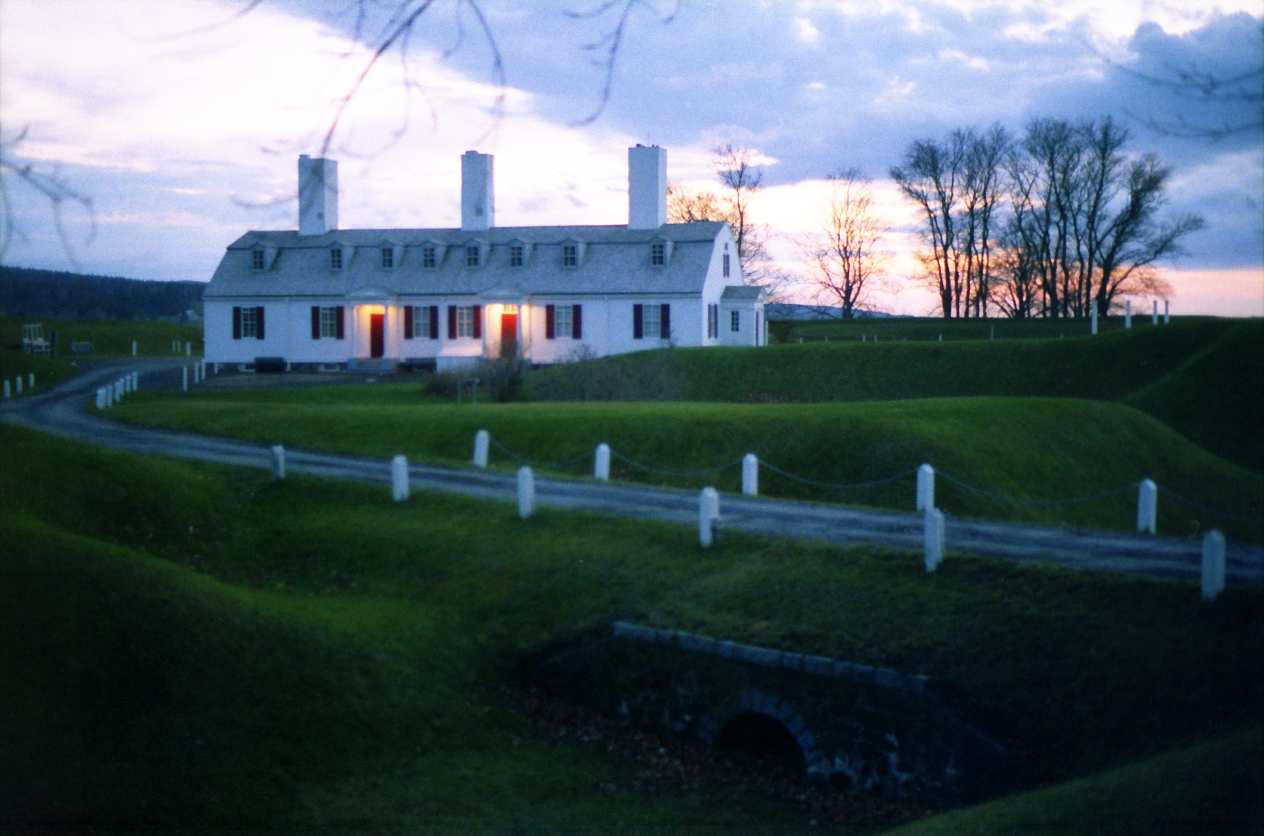 The government house in historic Annapolis Royal, Nova Scotia, Canada